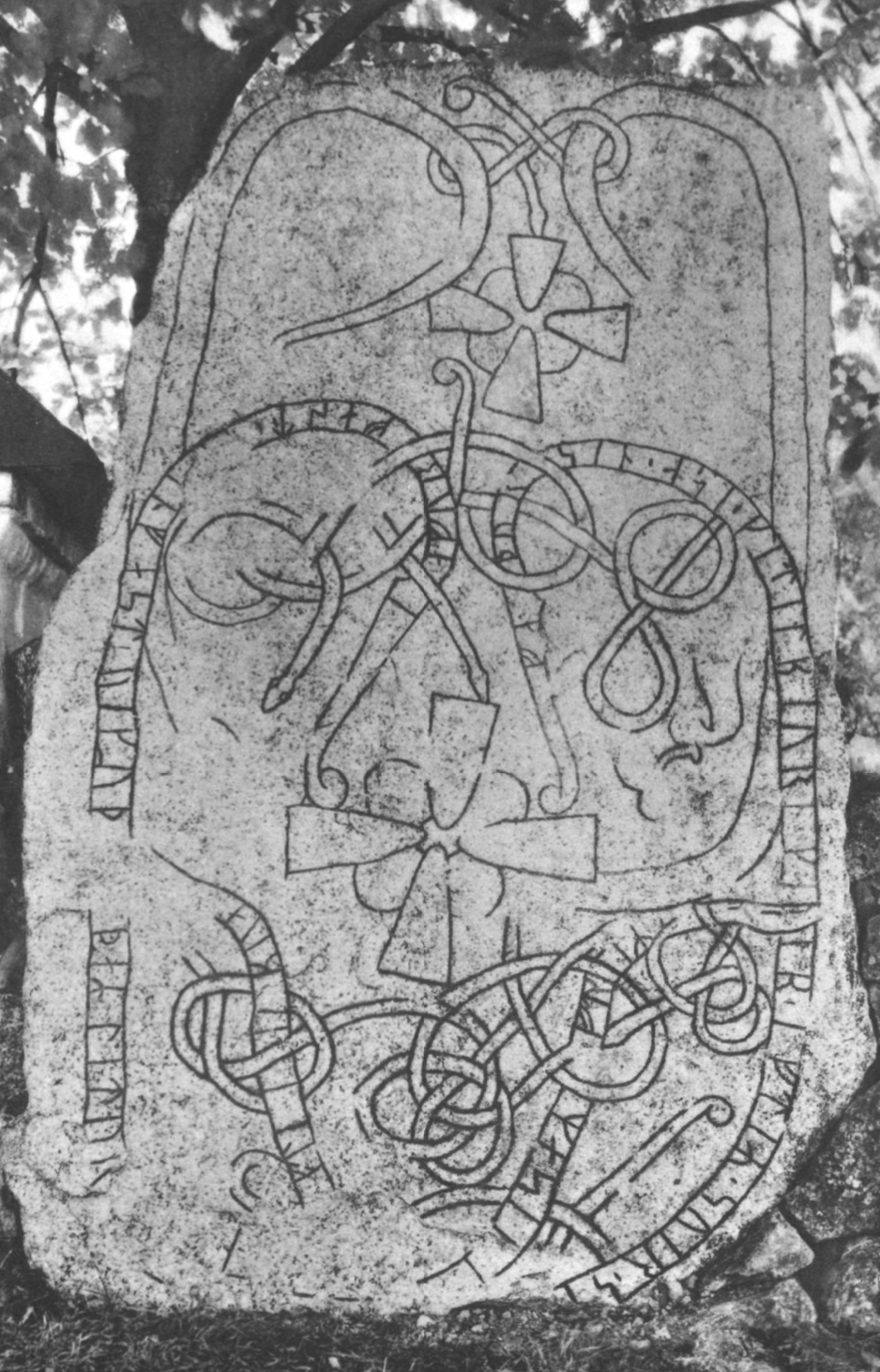 Runsten U846 vid Västeråkers kyrka